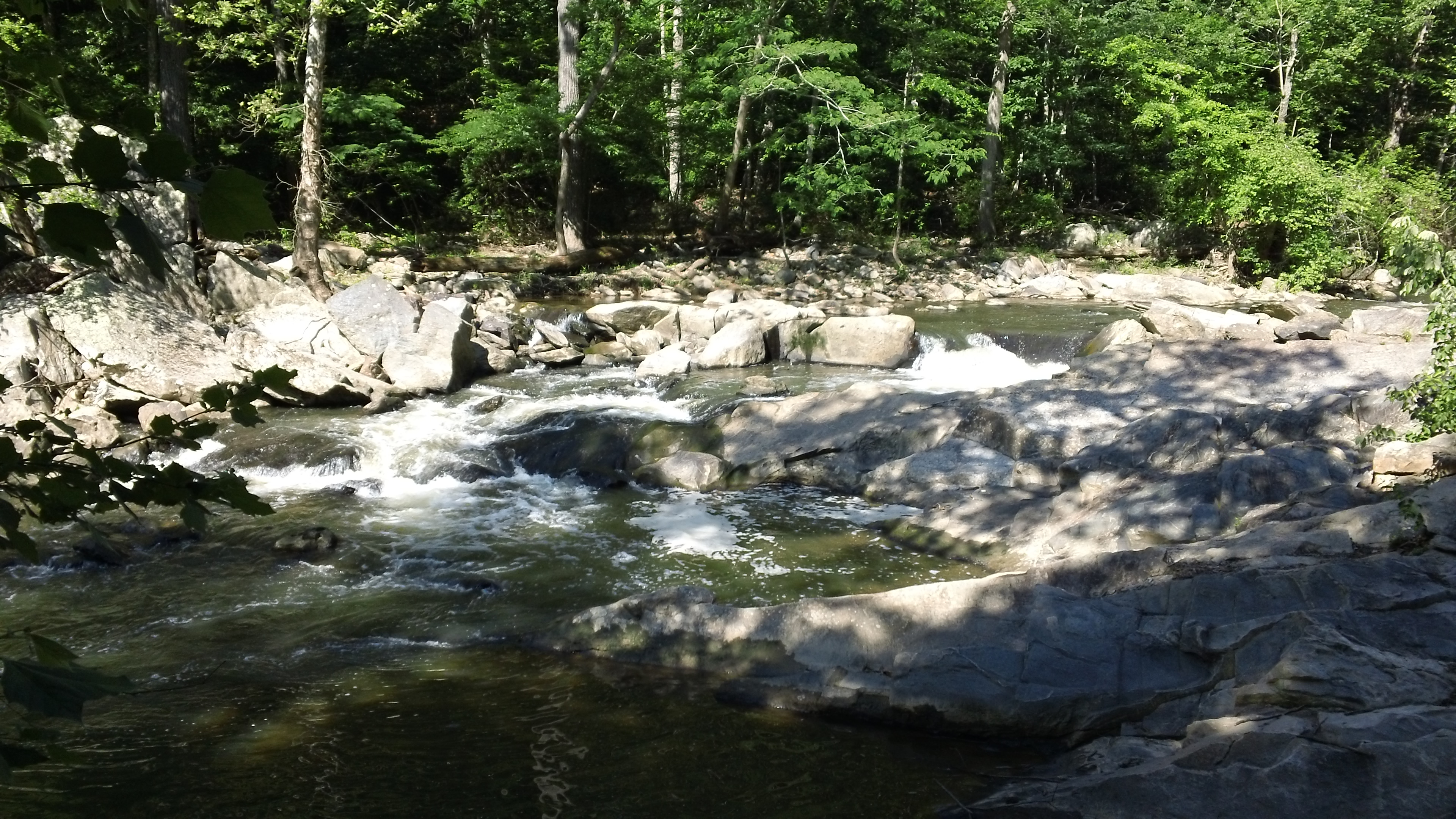 The Difficult Run in Great Falls Park, Virginia soon before its confluence with the Potomac River